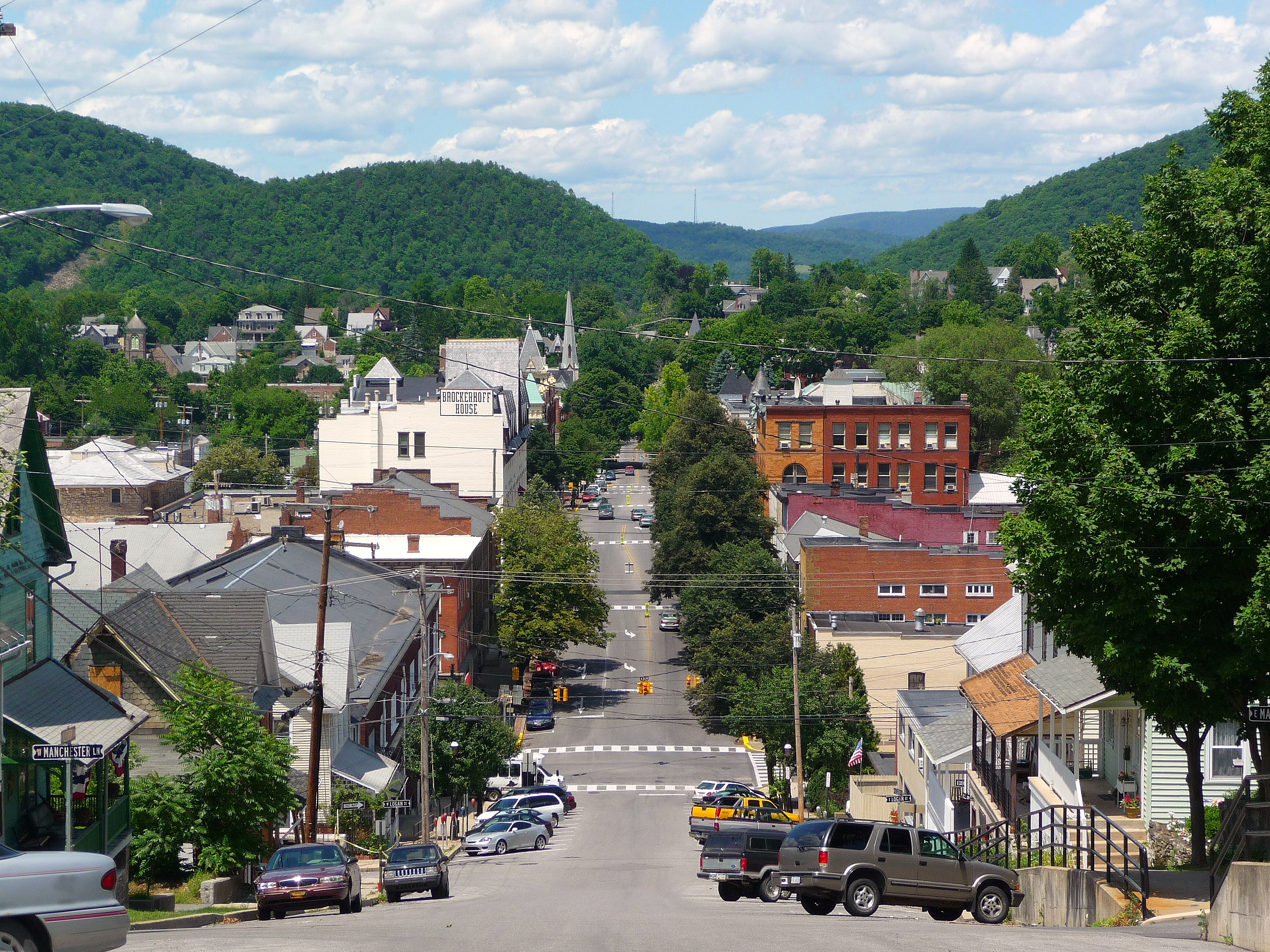 Looking down Allegheny Street from Reservoir Hill.